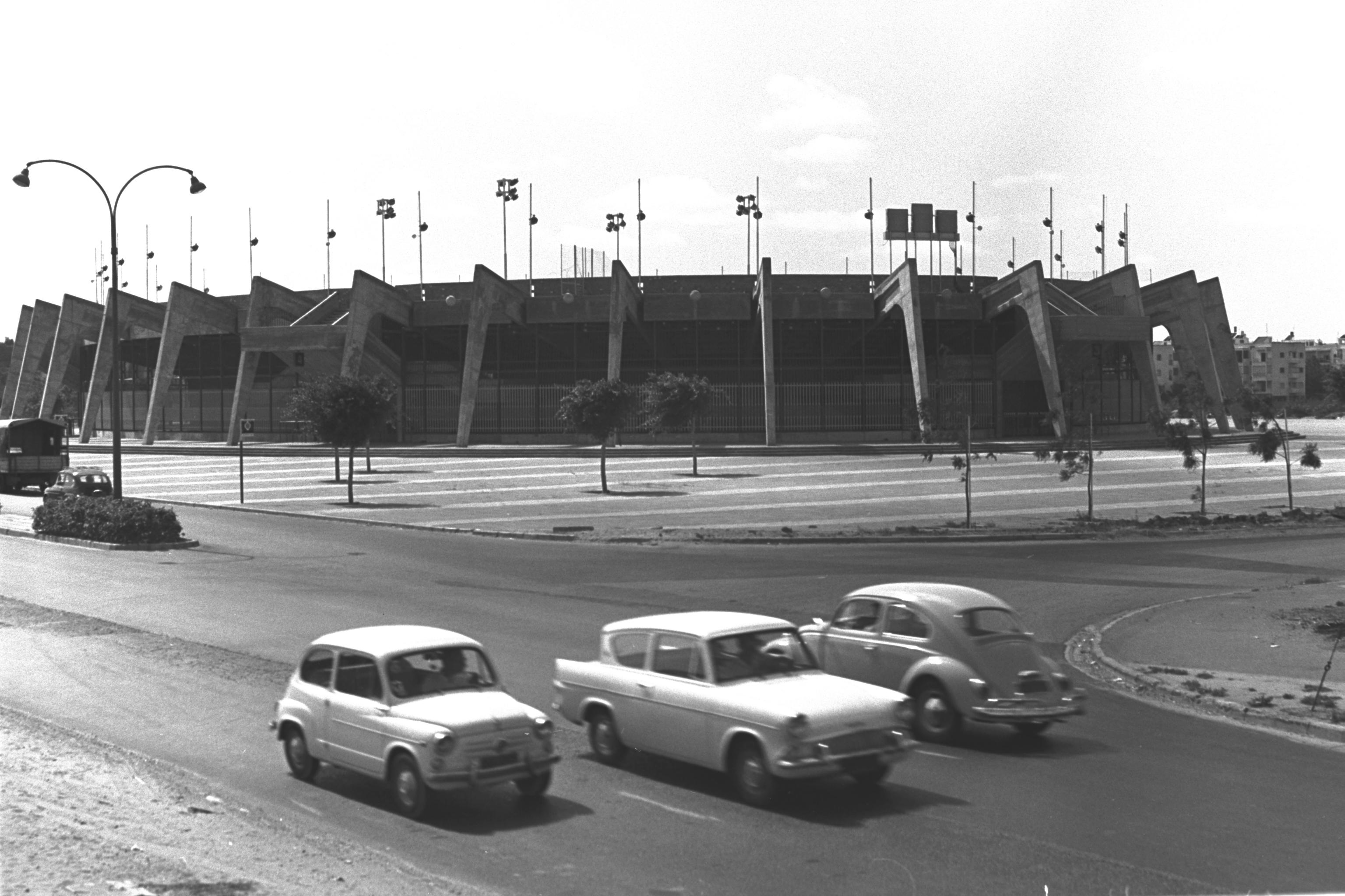 A VIEW OF THE YAD ELIYAHU BASKETBALL STADIUM IN TEL AVIV.